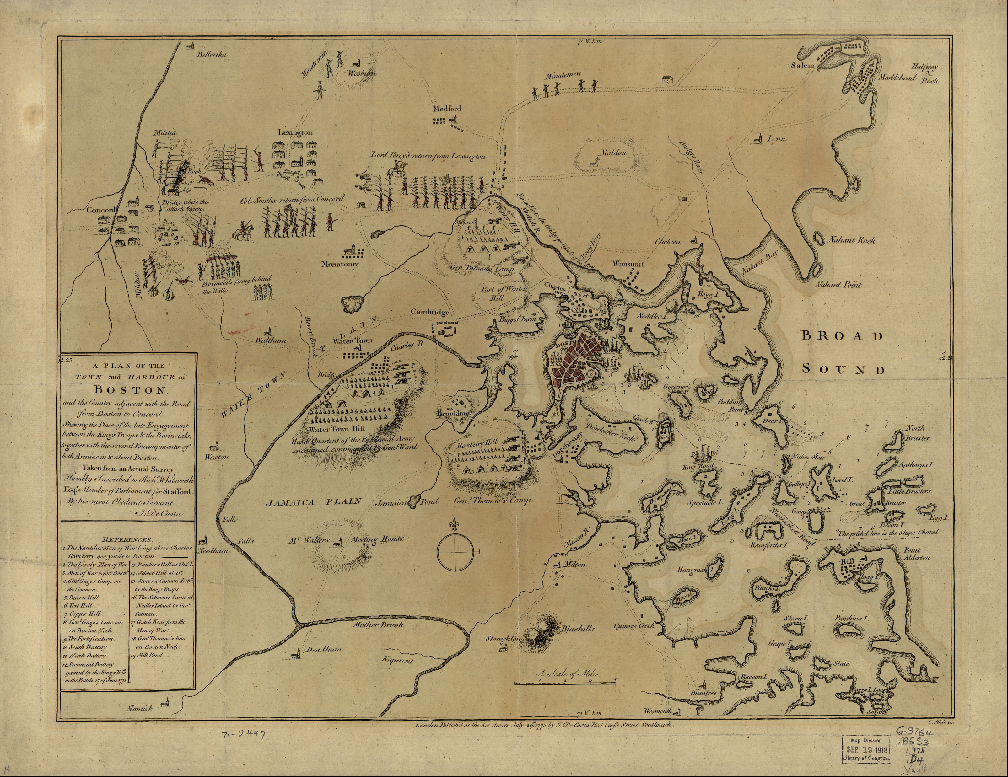 A mostly accurate hand-colored map depicting the 1775 Battles of Lexington and Concord and the Siege of Boston